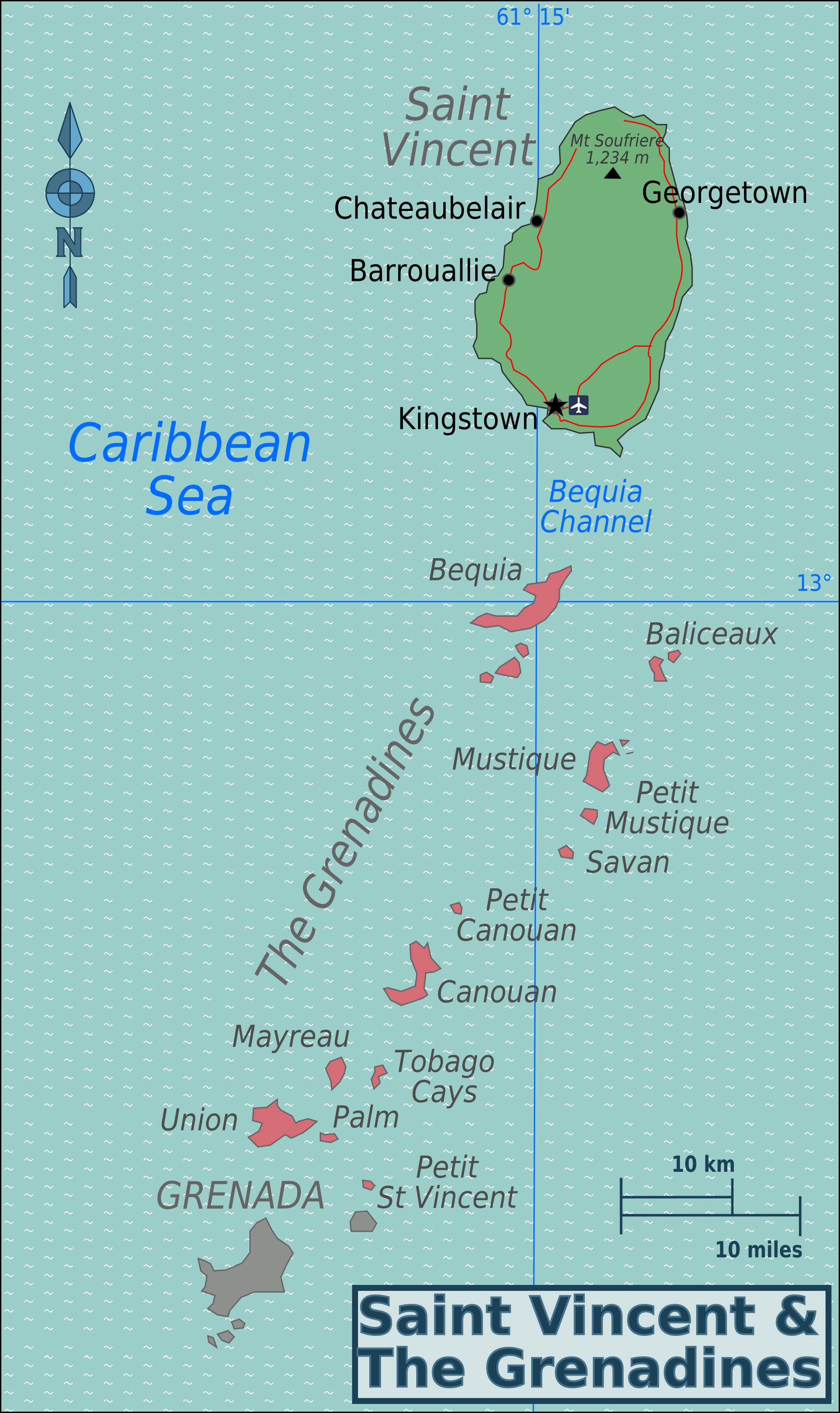 Map of Saint Vincent and the Grenadines (Caribbean) for use on Wikivoyage, English version